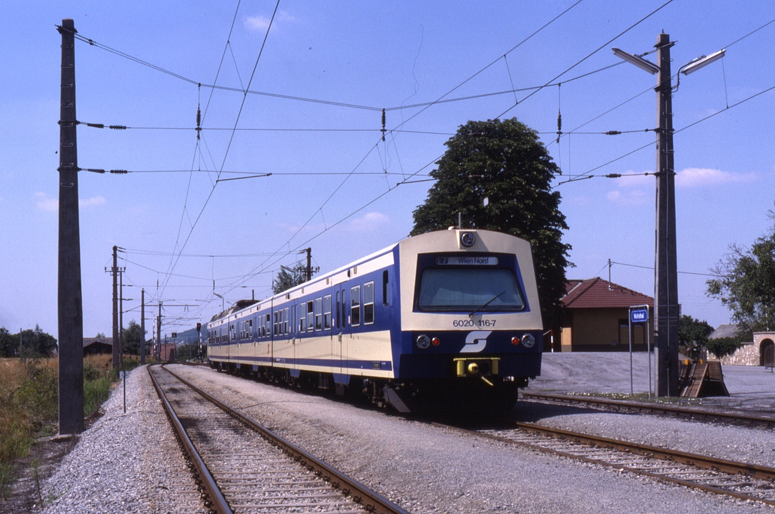 Class 4020 at the end of the line at Wolfthal. These units are largely to be found working suburban trains in and around Wien (Vienna) as part of the S-Bahn system.